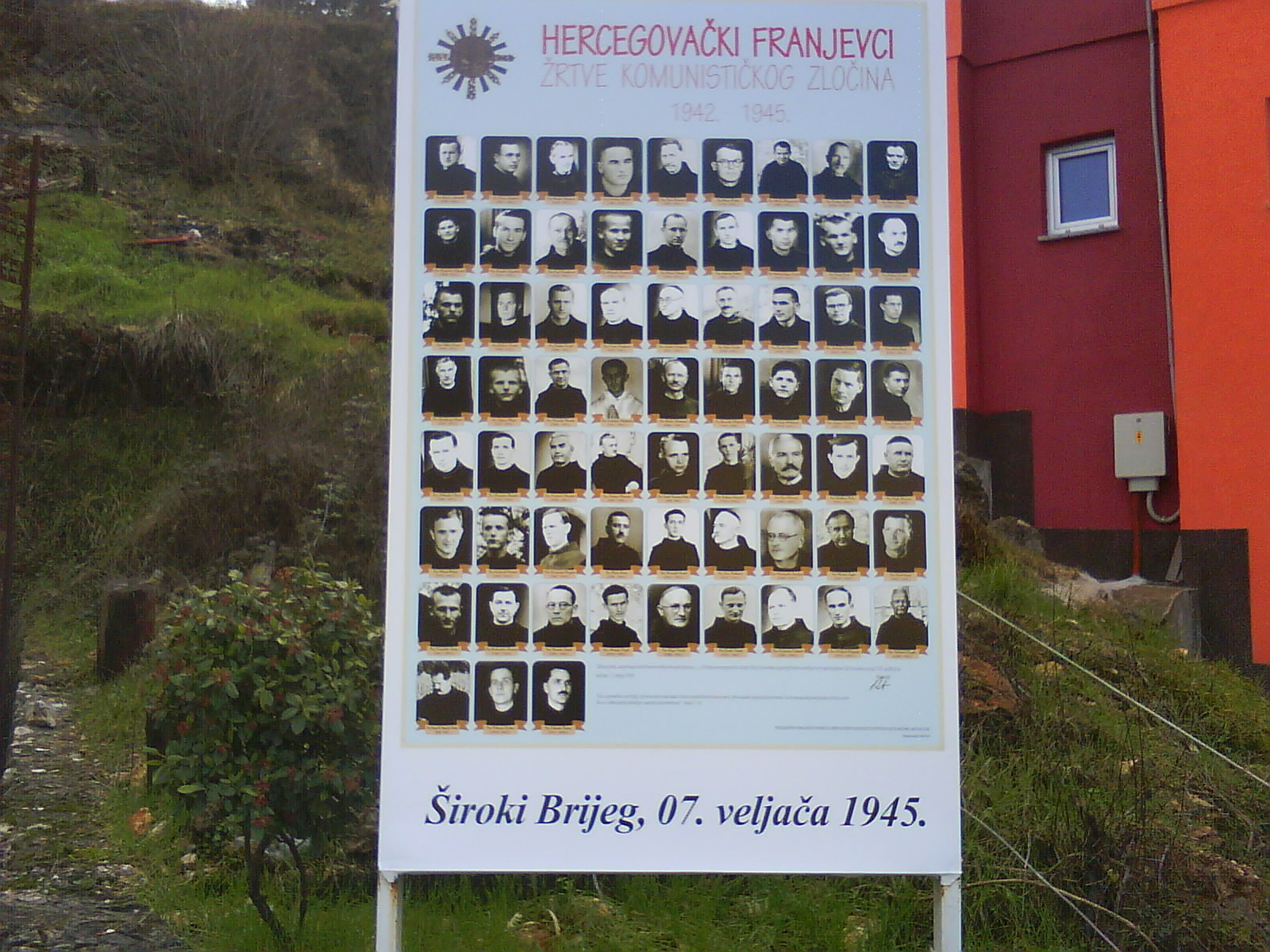 A table in a tribute of franciscans murdered during ww2 in Herzegovin by communist troopsHrvatski: Ploča u počast franjevcima ubijenim od strane partizana u drugom svjetskom ratu